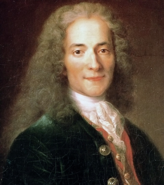 Depicted person: François-Marie Arouet (1694–1778), known as Voltaire, French Enlightenment writer and philosopher